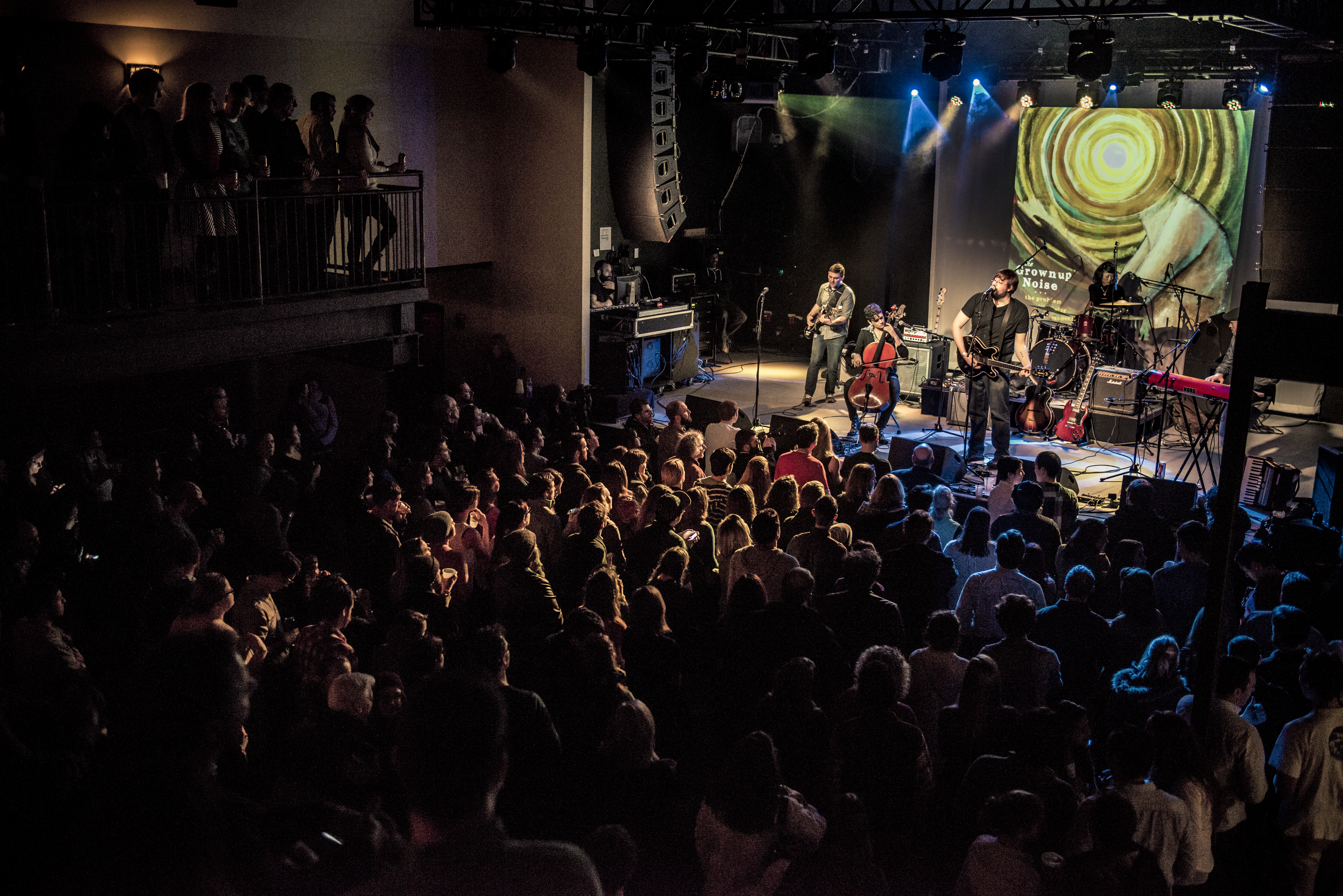 The Grownup Noise's CD Release at Sinclair in Cambridge, MA on January 30, 2015.